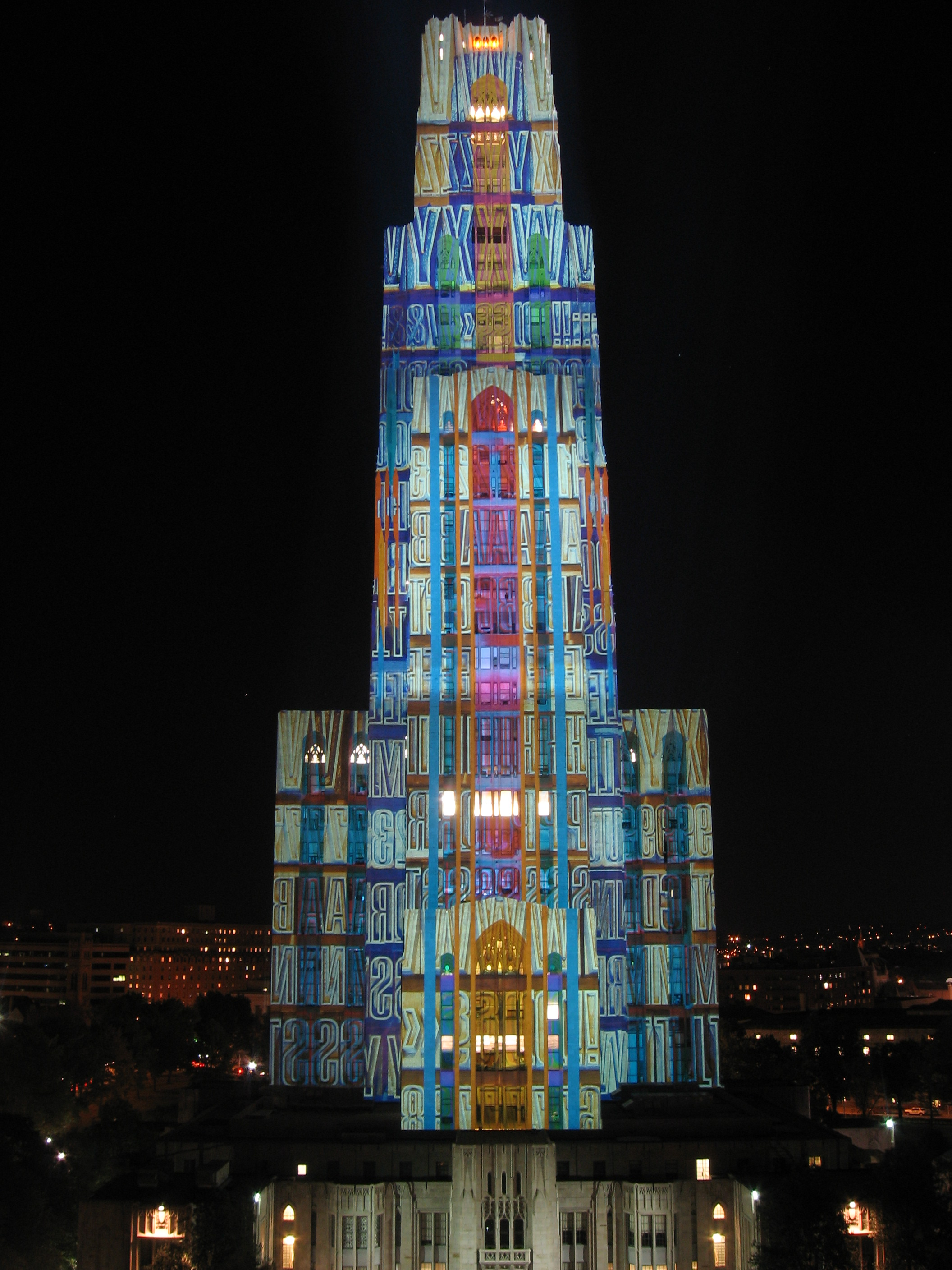 The Cathedral of Learning at University of Pittsburgh in winter. More images